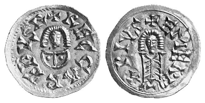 Coin of Reccared